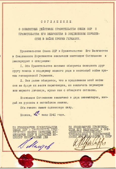 Agreement on joint actions of the Government of the Union of Soviet Socialist Republic and His Majesty's Government in the United Kingdom in the war against Germany (translated with Google)